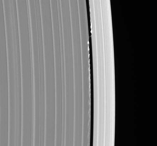 The small moon Daphnis in the Keeler Gap of Saturn's ring system is a so called shepherd moon due to its preserving effect on the nearby rings. Its gravitational pull can be seen by the wave pattern on the rings. Imaged by Cassini.